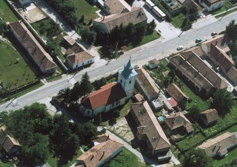 Nemszmély Hungary aerialphotography